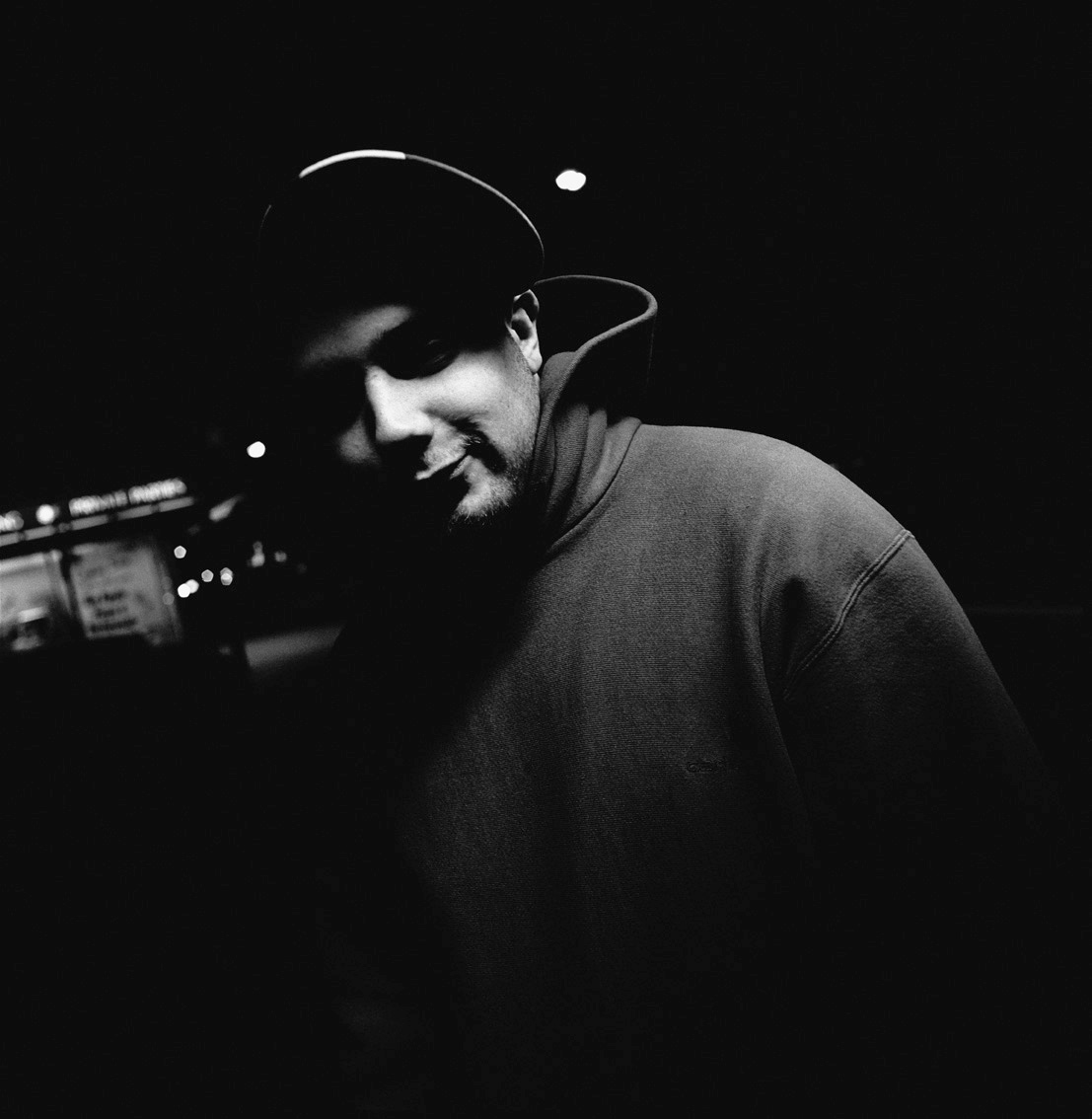 NYC 1998, rapper Necro from Non Phixion